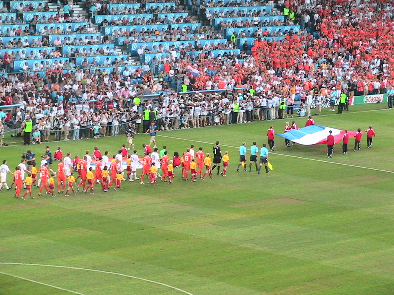 Few minutes before the match